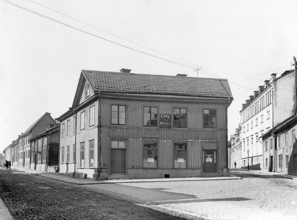 The square "Näbbtorget", Örebro, Sweden